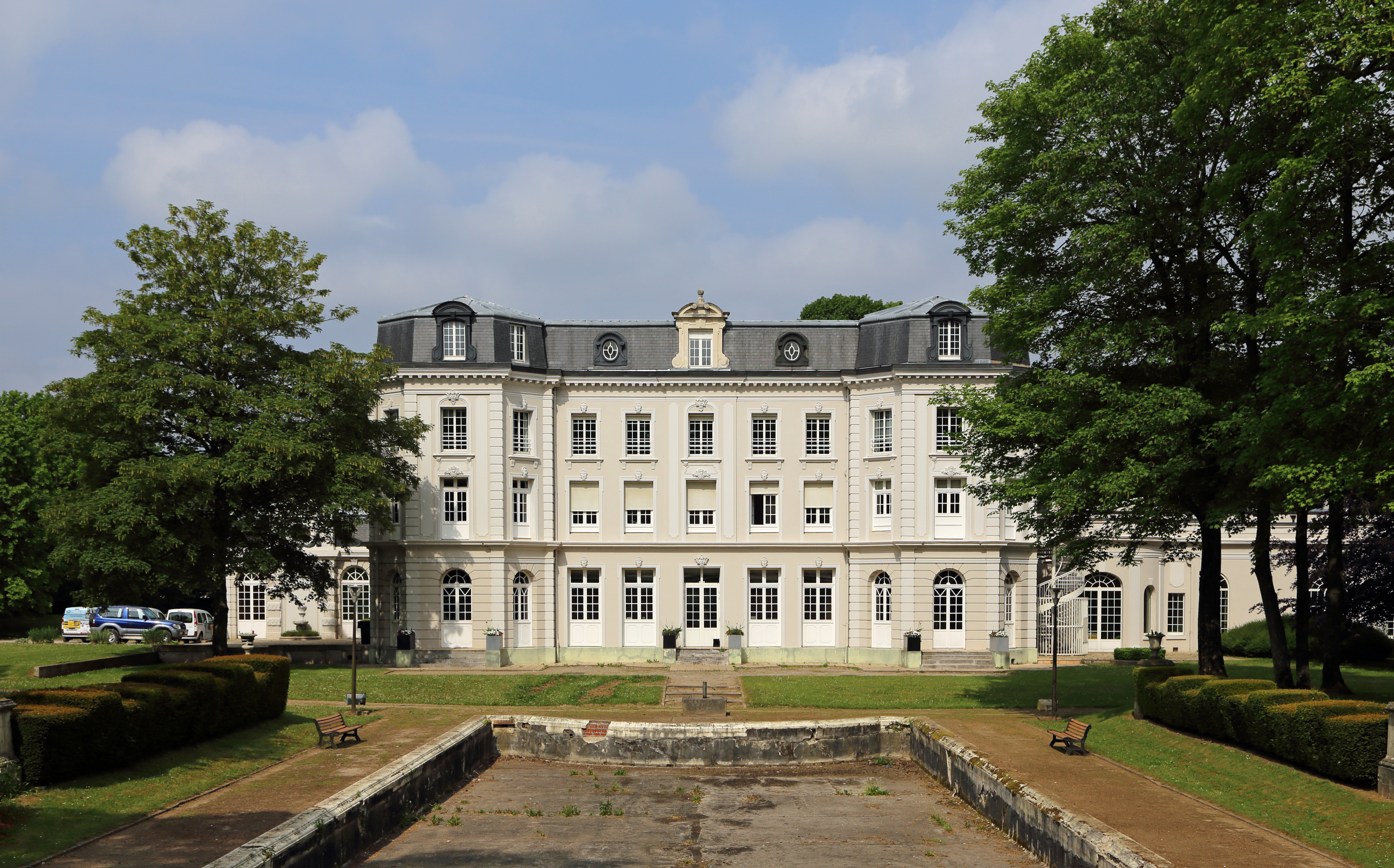 Mazingarbe (Pas-de-Calais department, France): former Mercier castle, now town hall